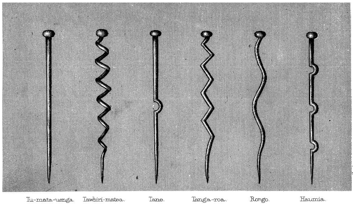 Carved sticks representing the Māori gods Tūmatauenga (god of war), Tāhirimātea (storm god), Tāne (god of forests), Tangaroa (sea god), Rongo (god of cultivated plants and peace), and Haumia (god of wild food plants), New Zealand, 19th century